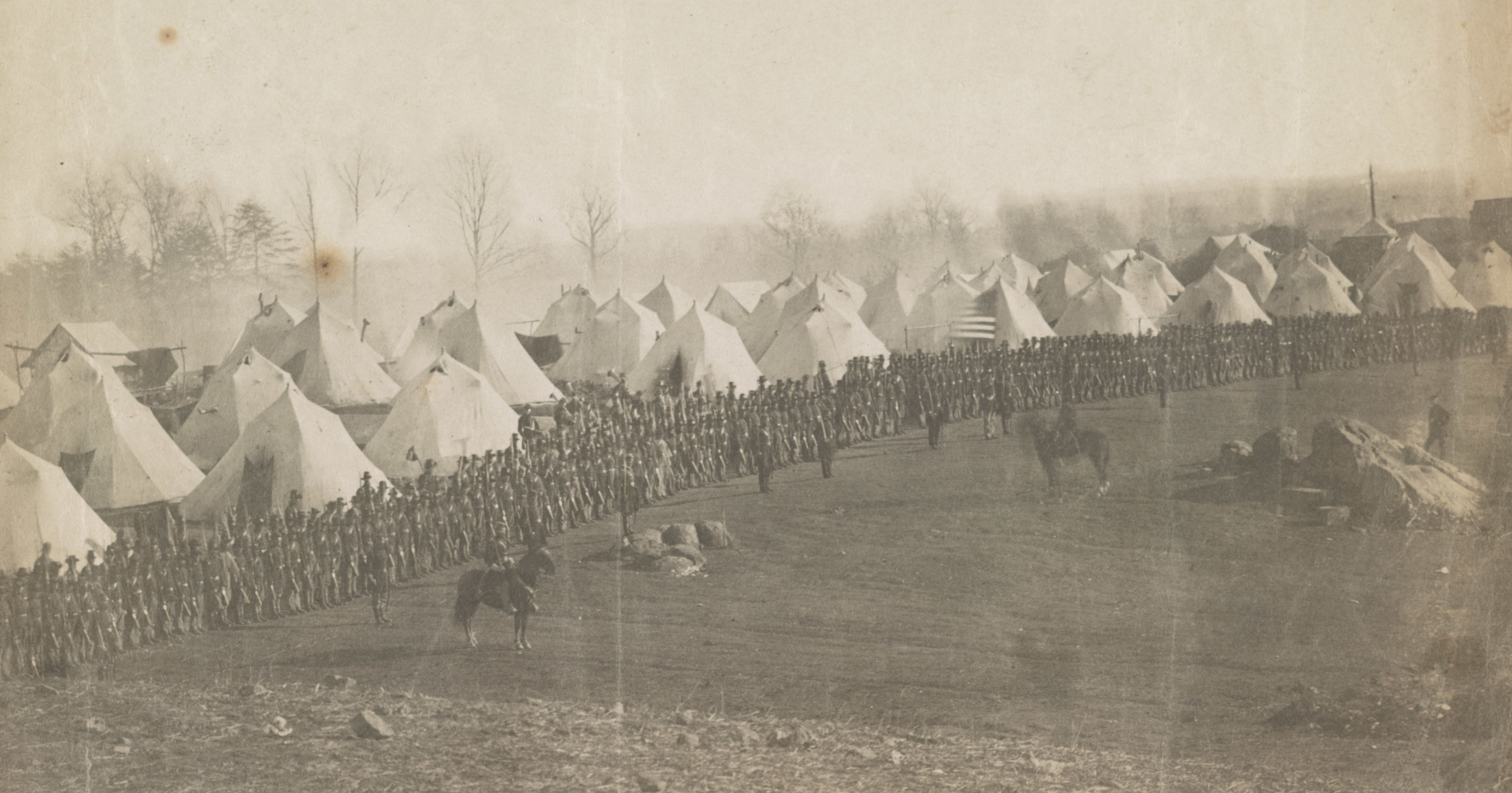 Title: Camp of 5th Vt. [i.e. Vermont] Reg. Volunteers Camp Griffin Va. Abstract/medium: 1 photograph : salted paper print ; sheet 14 x 21 cm.